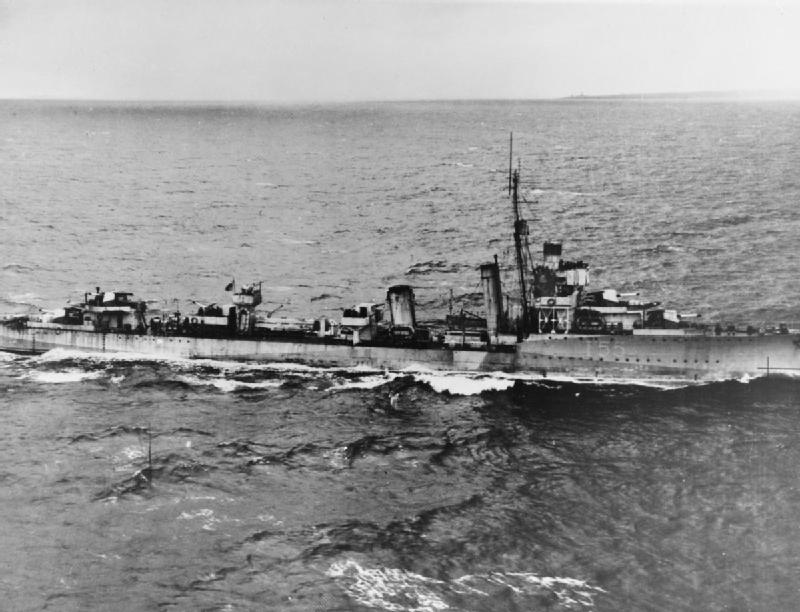 HMS Vesper Underway.